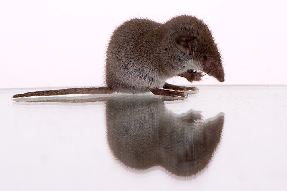 shrew